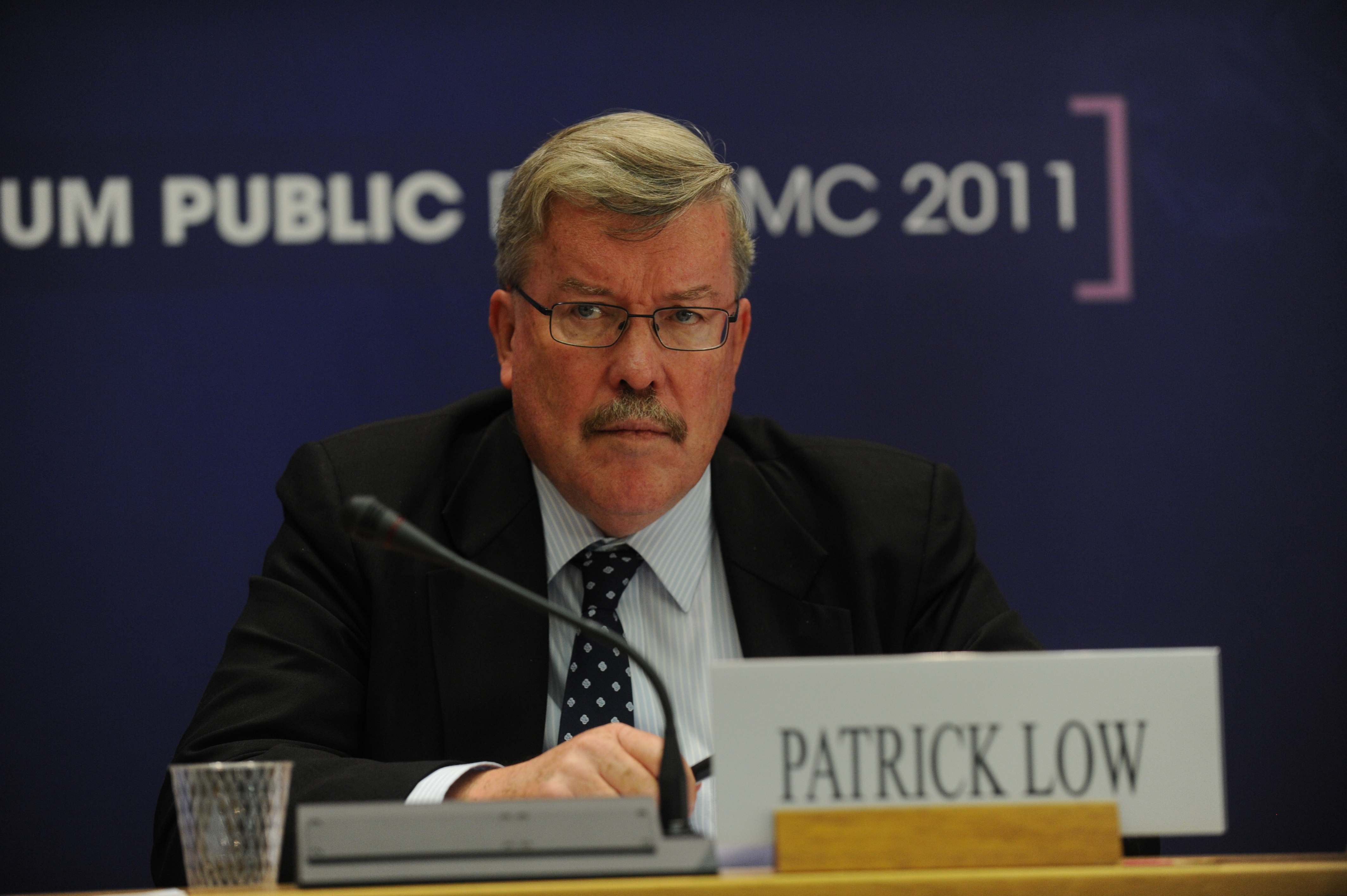 Photos from the WTO Public Forum 2011 - “Seeking answers to global trade challenges” photo gallery may be reproduced provided attribution is given to the WTO and the WTO is informed. Photos: © WTO/Jay Louvion